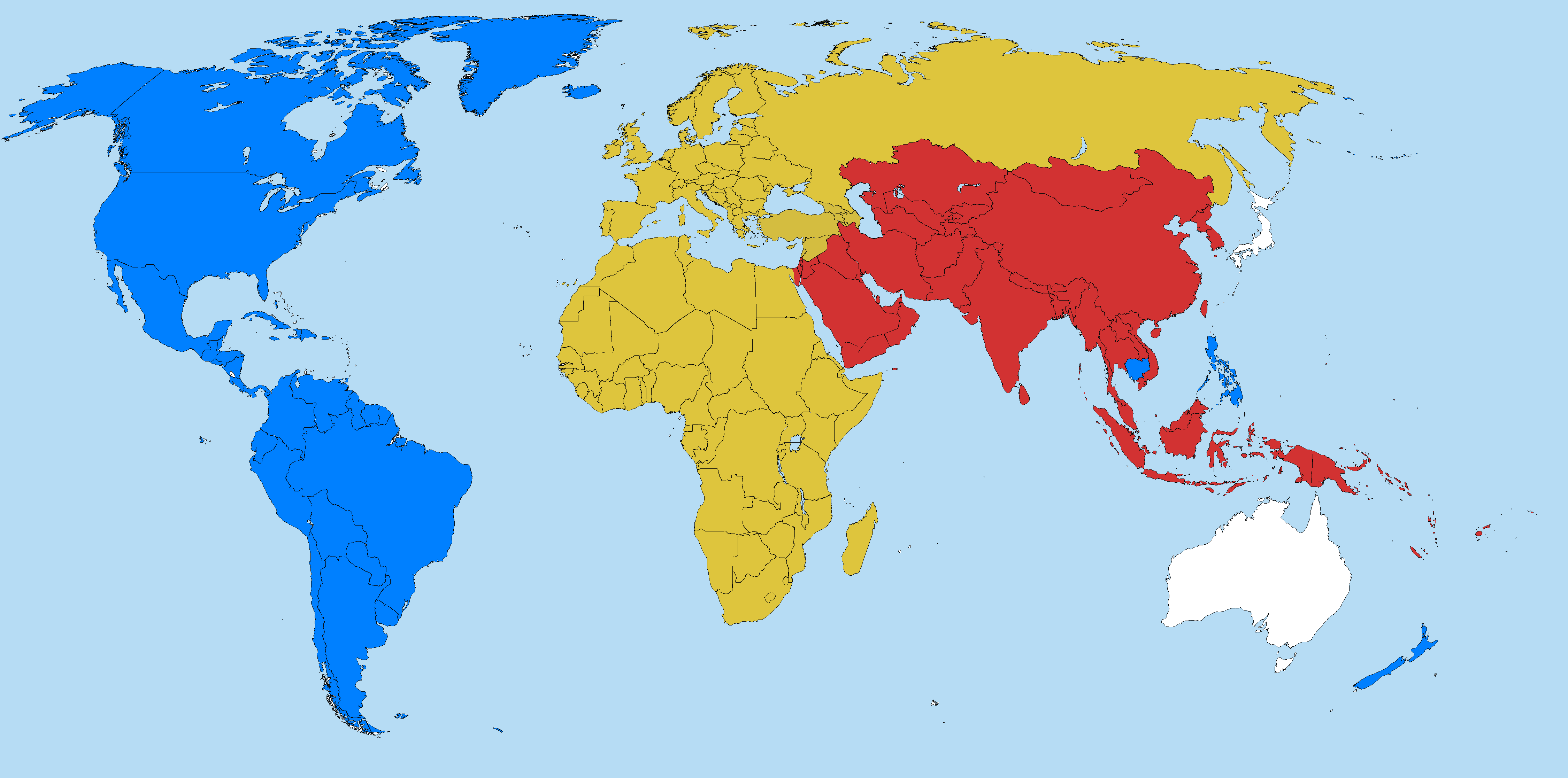 Code_Geass_map_1_(pre-Japan_invassion)